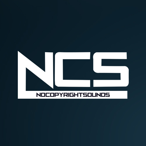 Logo of NCS